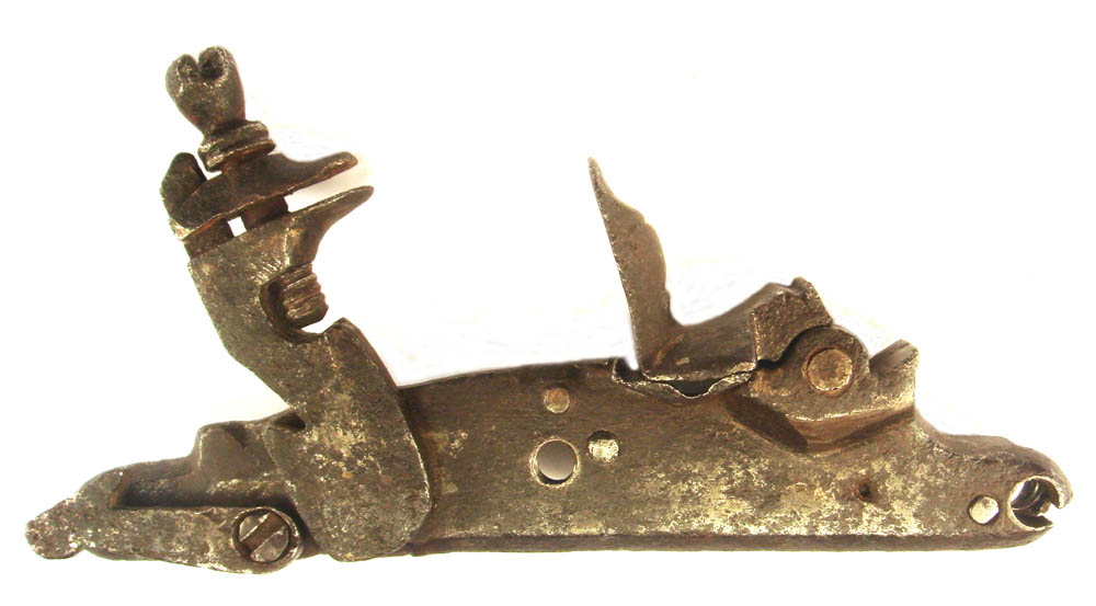 Front side view of an early Type 2 English Lock (flintlock) commonly known as a Doglock